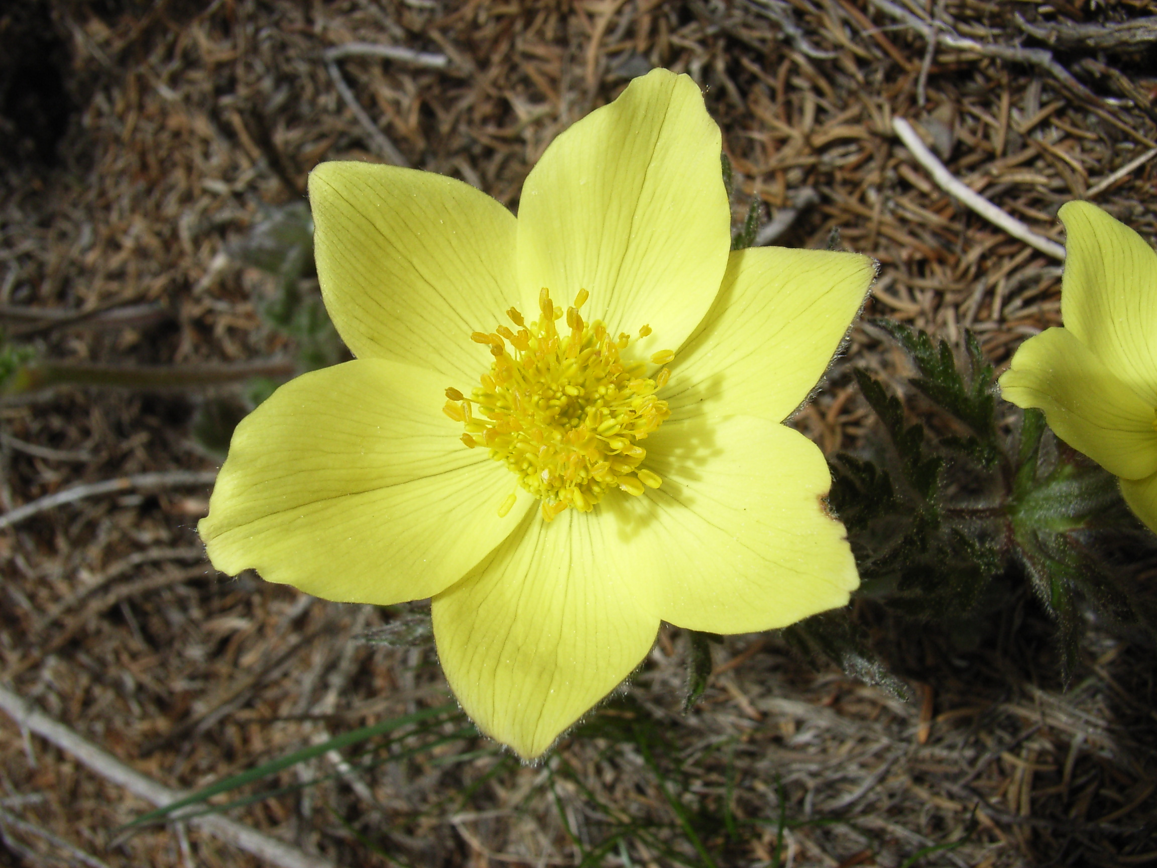 Pulsatilla alpina subsp. apiifolia. Vigiljoch (~1700 m NN), South Tyrol, Italy.